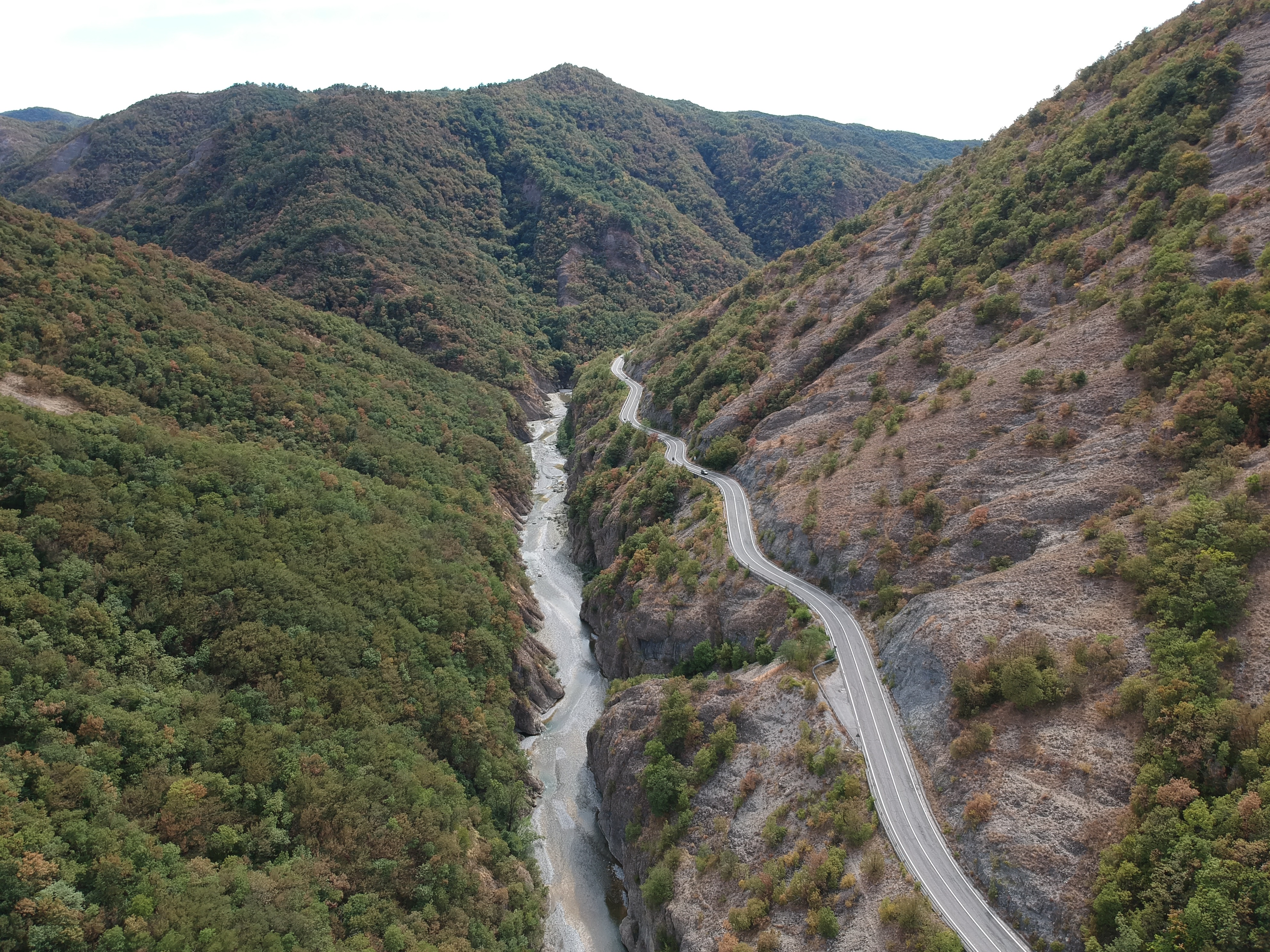 The canyon and the adjoining road between low and high valley